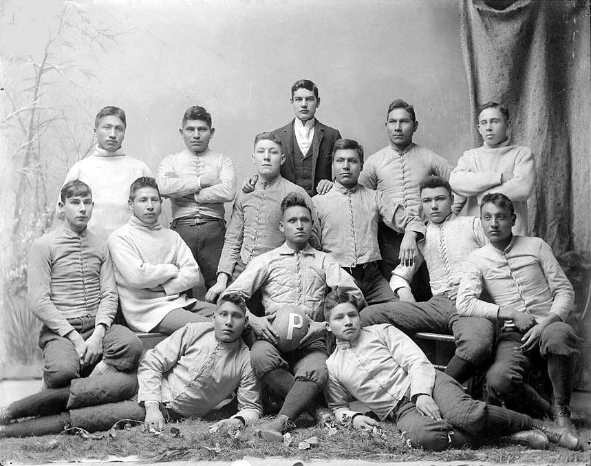 Portrait of College Football Team, The "Pirates," in Partial Uniform, and with Man in Business Suit 1879.